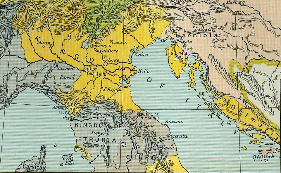 I have done a digital photo of a section of a map, of the napoleonic Kingdom of Italy in 1807, from an old book about Napoleon in Italy. The book was edited in 1935, so the image is not copyrighted because done more than 70 years ago. I have later enlarged the image with my own software.